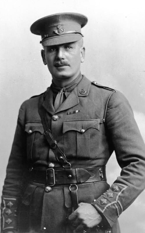 King's Shropshire Light Infantry Captain English (1874-1941) was educated at Wellington College and the Royal Military College, Sandhurst. He played cricket for Gloucestershire and played once for England in 1909. Captain English received his commission in 1895 and served in the Second Anglo-Boer War (during which he was wounded). He was promoted to captain in 1909 and major in 1915. During his First World War service, he was wounded again and was awarded the DSO (in 1917), the Croix de Guerre and twice Mentioned in Despatches. He retired from the Army with the rank of lieutenant colonel on 29 November 1919. After leaving the Army, Ernest English became an actor, performing on stage and screen. Faces of the First World War Find out more about this First World War Centenary project at This image is from IWM Collections.